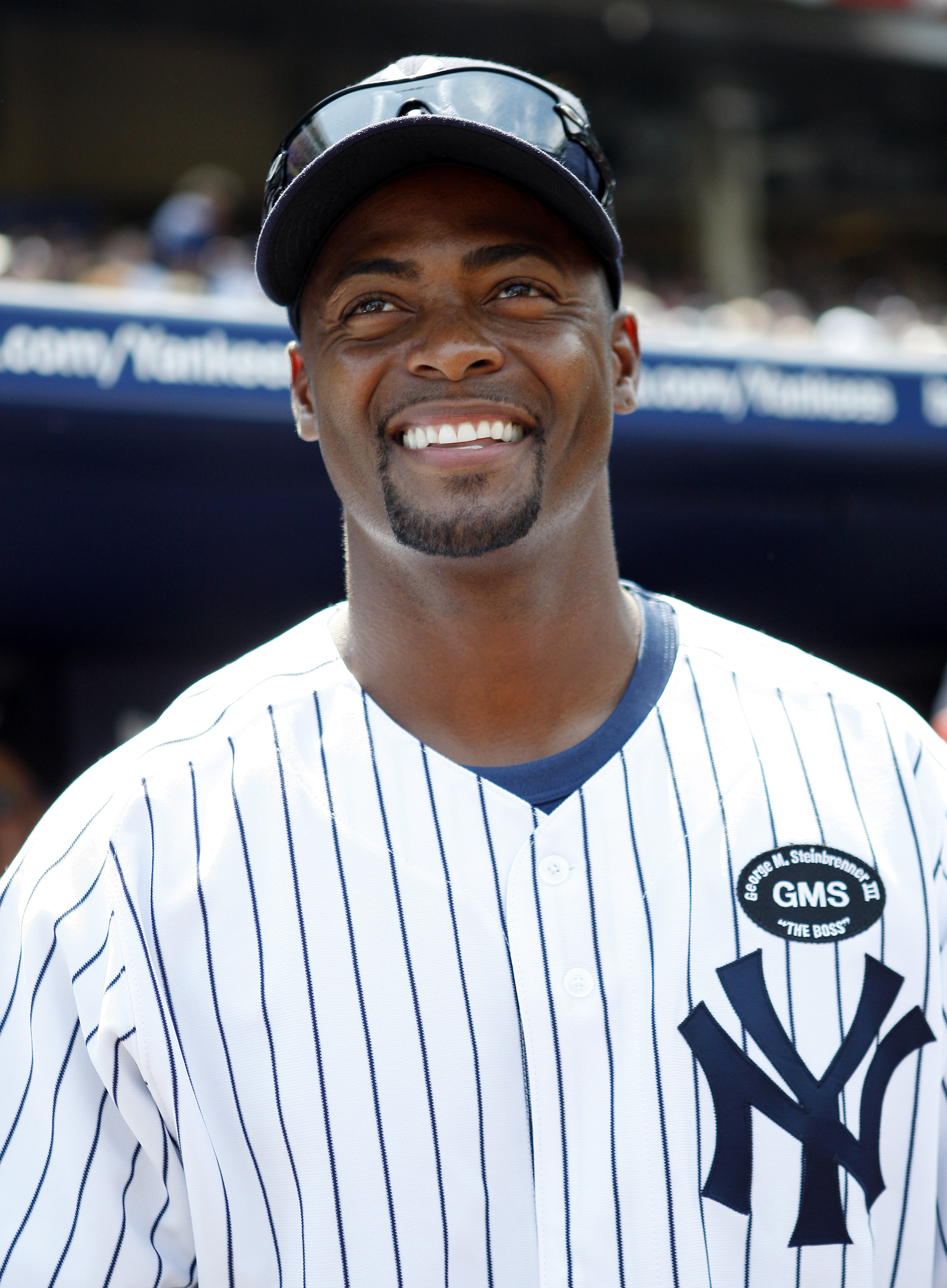 Homer Bush at New York Yankees Old Time's Day 2010